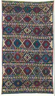 Tapestry-woven wool carpet “Kilim”. Shirvan school.